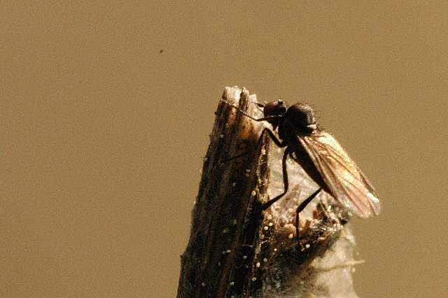 Picture taken in Commanster, Belgian High Ardennes . Species: Hilara maura